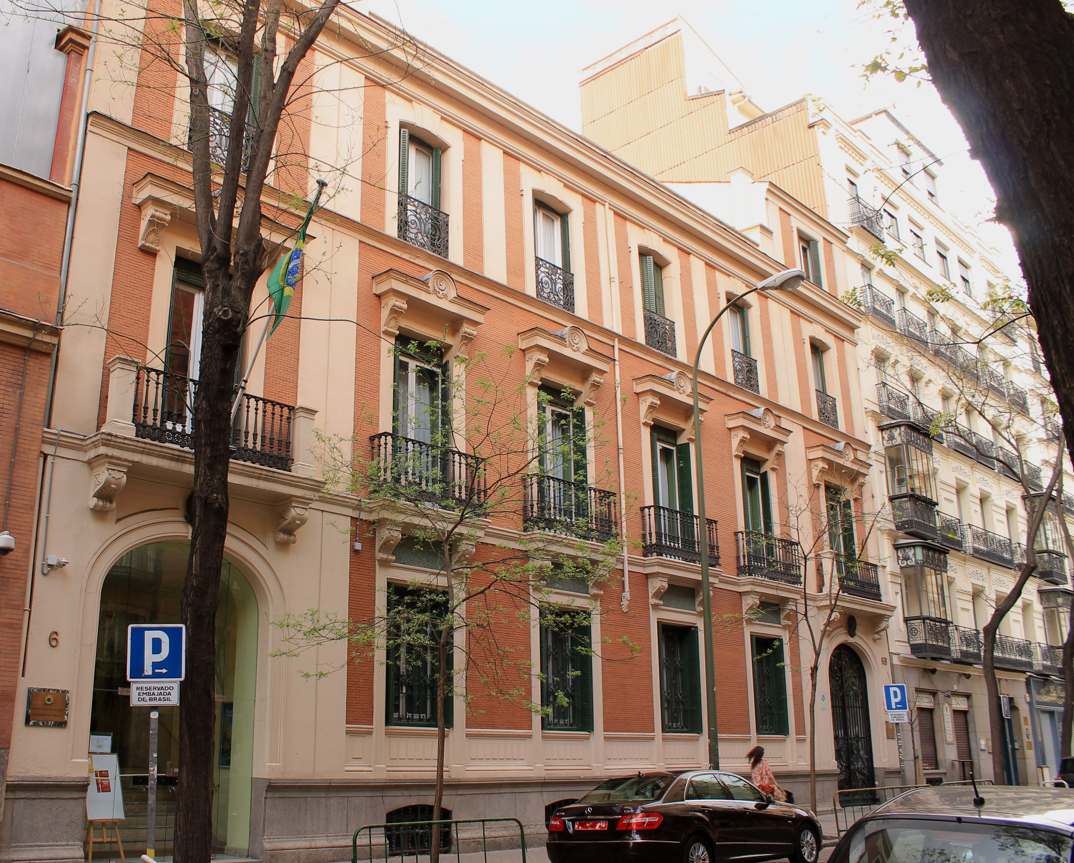 Home of the Brazilian Embassy in Madrid (Spain).